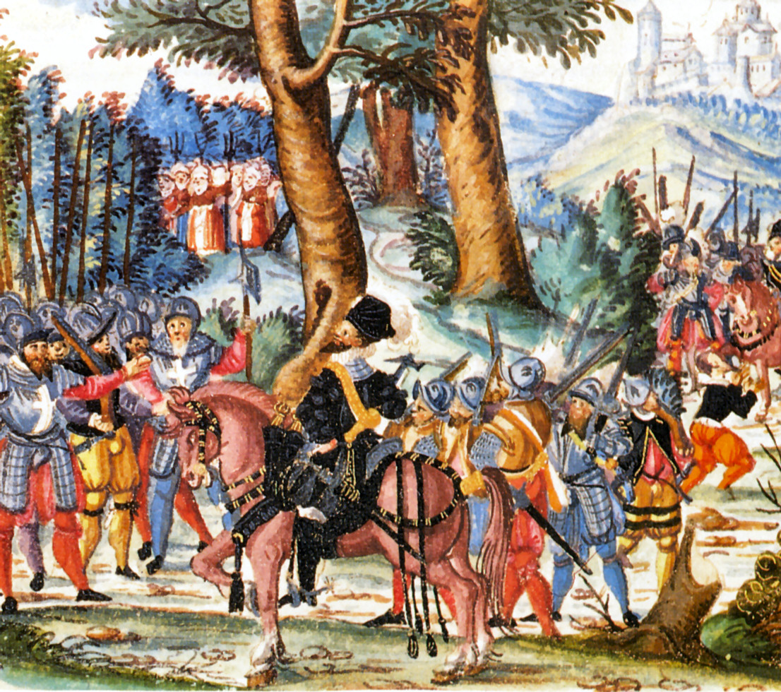 Andreas Ryff near the castle of Wildenstein facing the insurrection from the Basel-Landschaft (May 1594). Ryff managed to stop the conflict using his negociation skills.